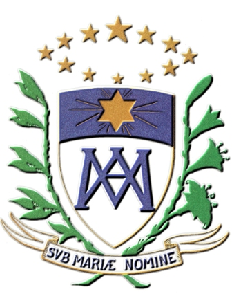 Emblem of Marist Fathers' congregations, from a coloured postcard, ca. 1900